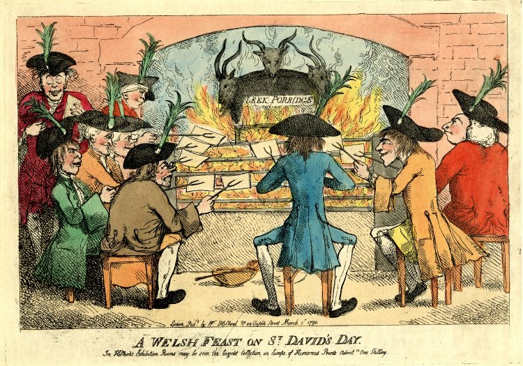 1790 satirical image showing 9 men with leeks on their hats toasting cheese in front of an open fire.